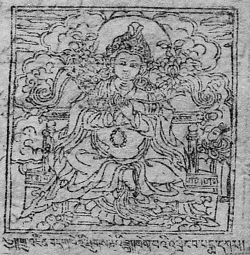 Padma dkar-po, a mythological king of Shambhala, according to a Tibetan blockprint of the Vaidurya dkar po (1685)